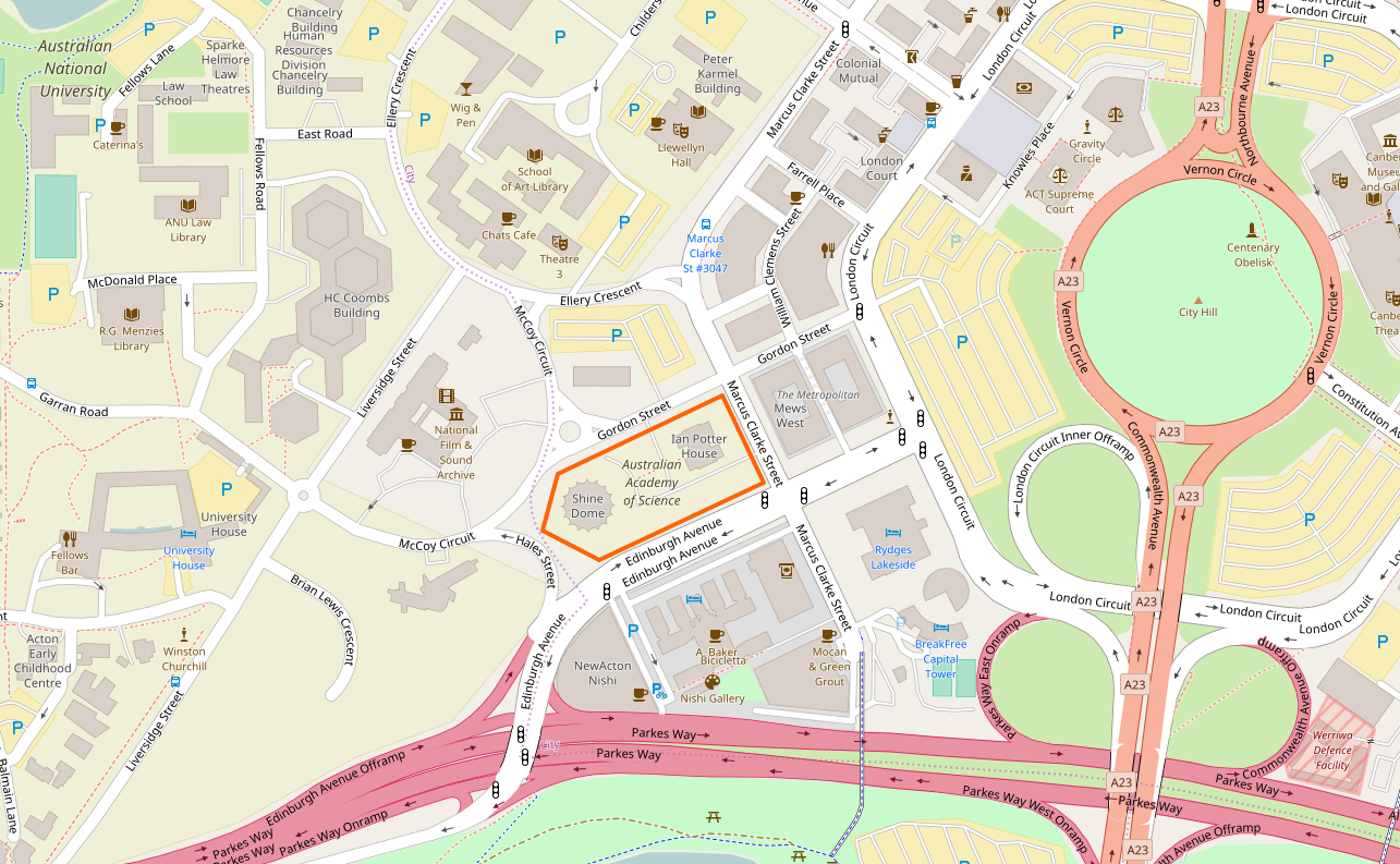 location of the Australian Academy of Science on Open Street Map.